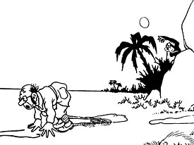 Still image of the titular character from the cartoon "Colonel Heeza Liar in Africa"